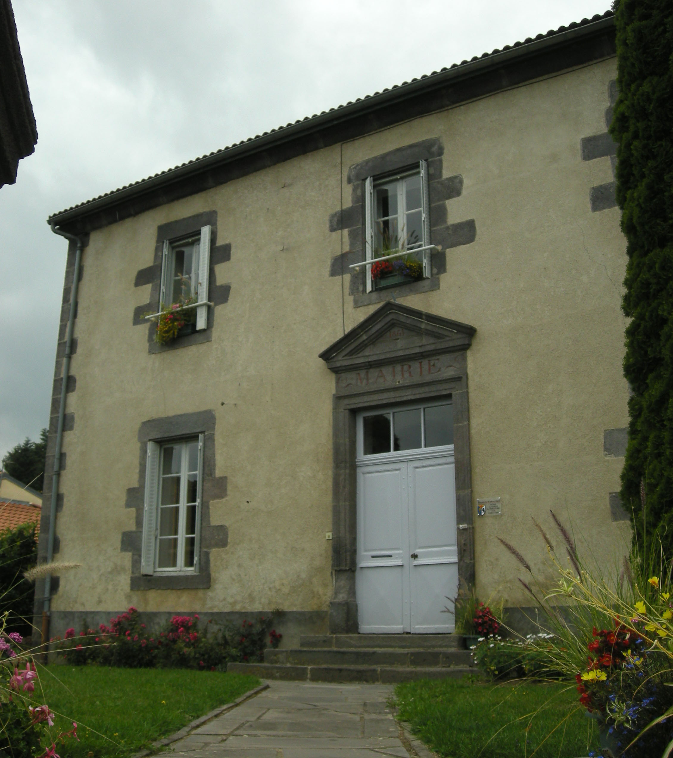 Townhall of Orcines (Auvergne, France)